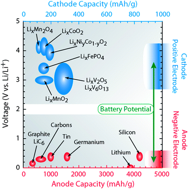 Battery Potential vs. Capacity depending on materials